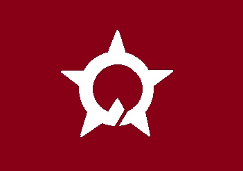 Flag of Ono Fukui